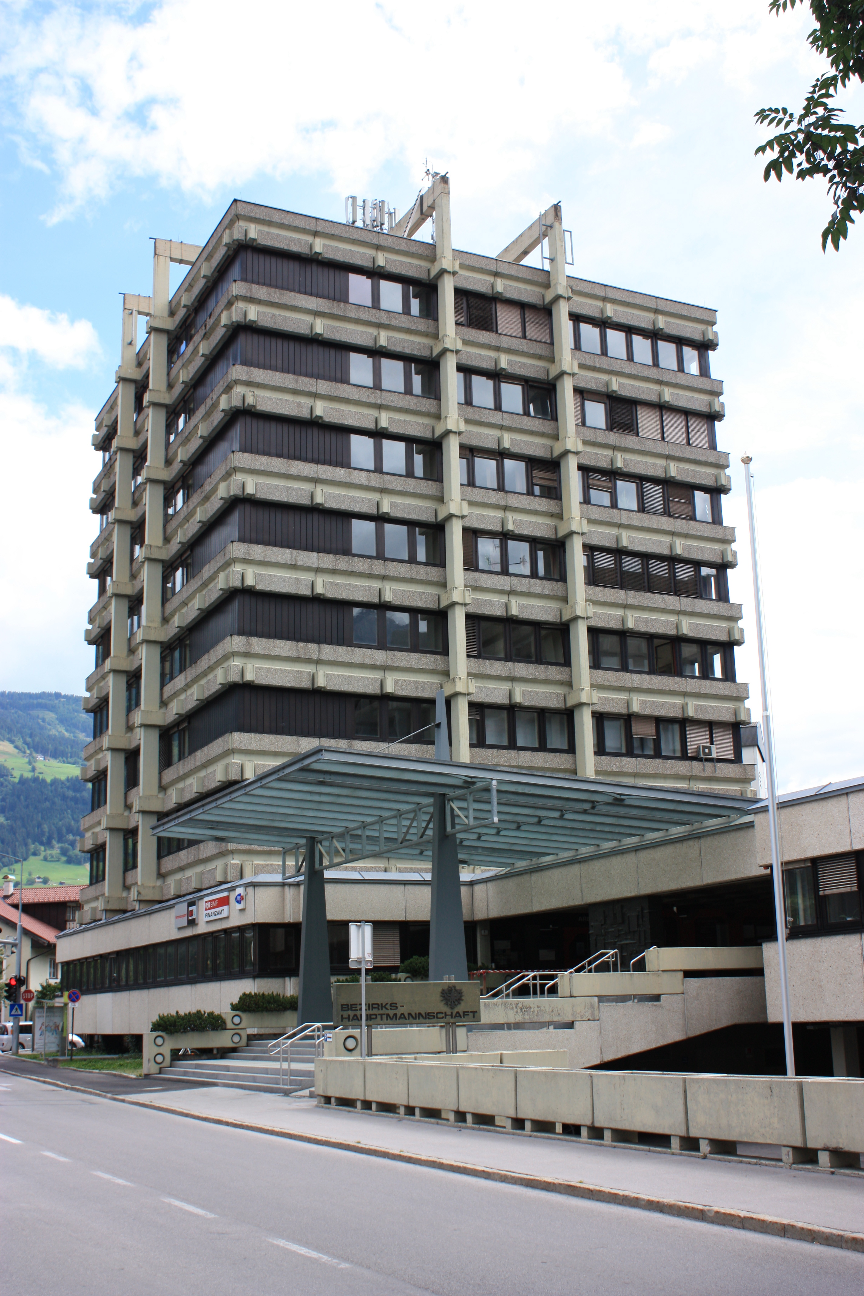 Building of the district authority Locality:Dolomitenstraße Community:Lienz